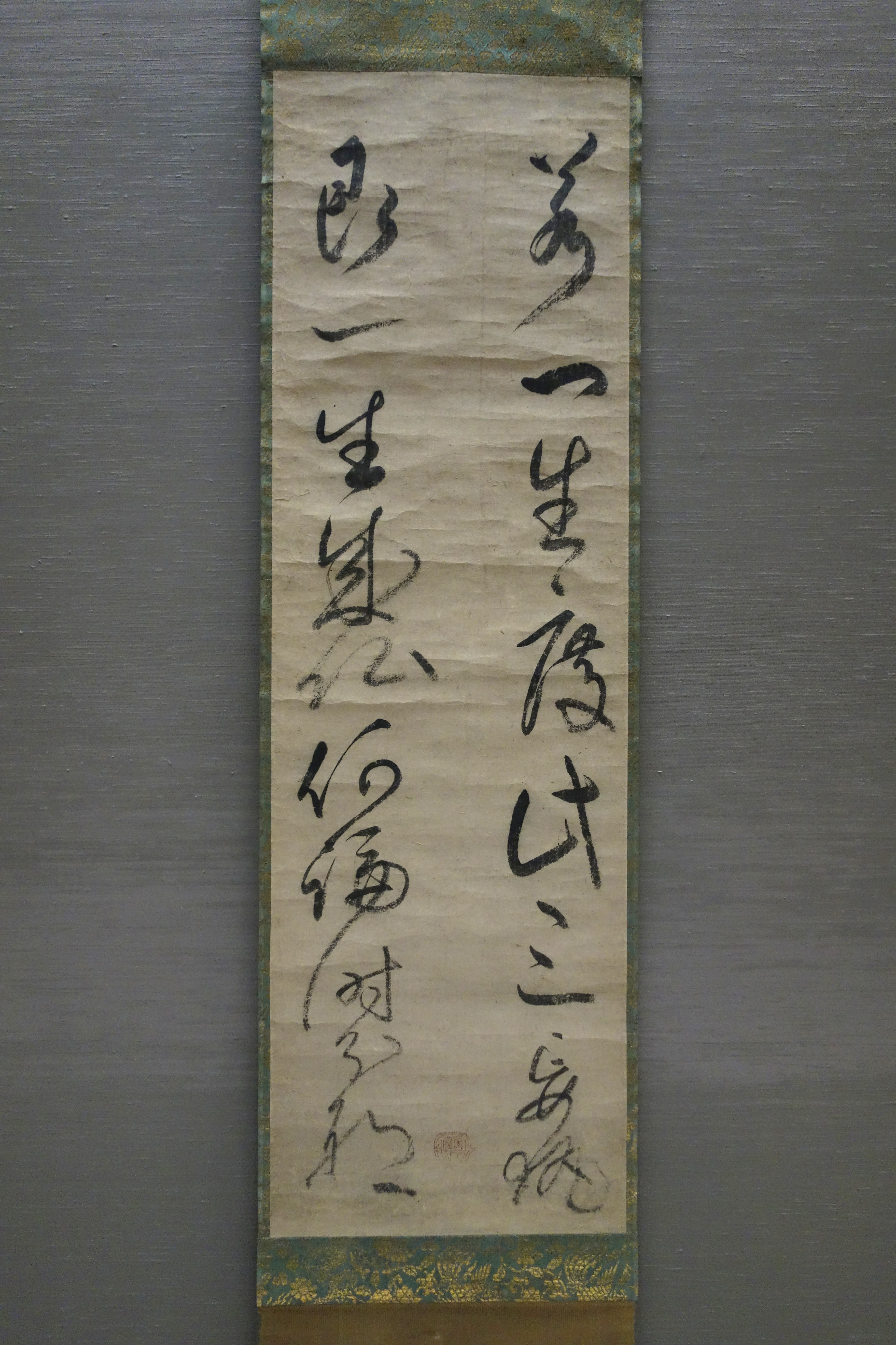 Exhibit in the Tokyo National Museum, Tokyo, Japan. This artwork is old enough so that it is in the public domain.